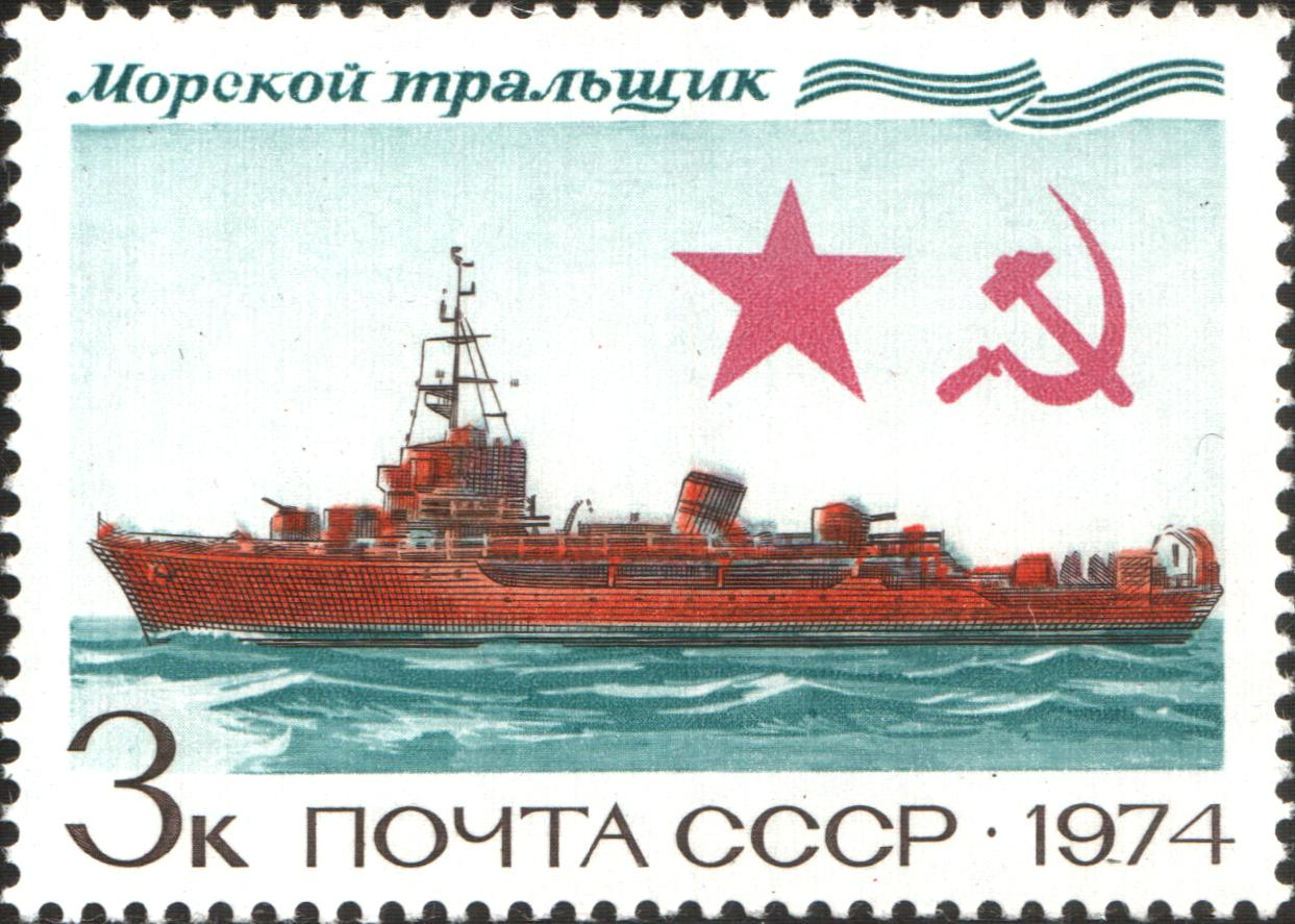 USSR stamp